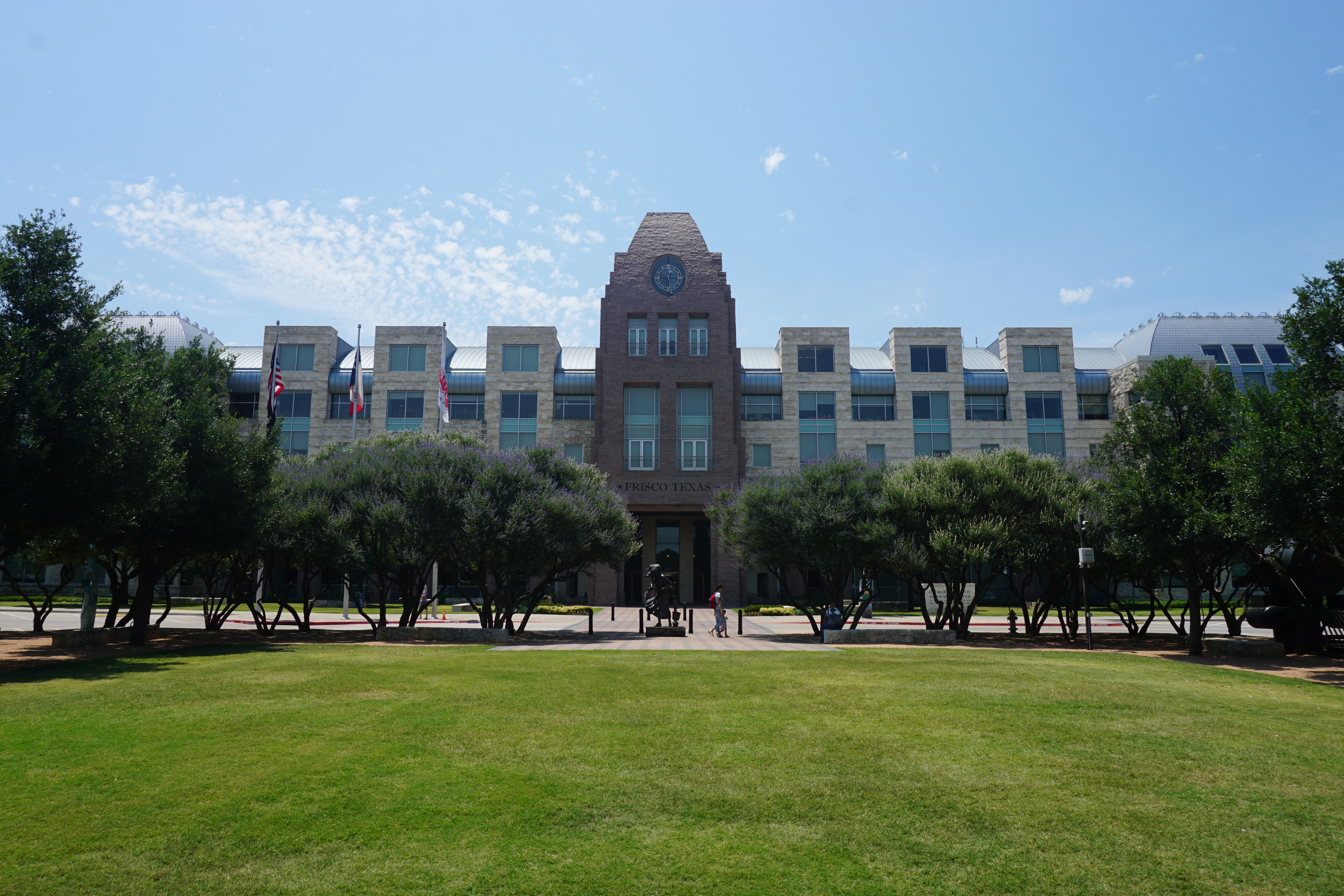 The George A. Purefoy Municipal Center and Frisco Square in Frisco, Texas (United States).